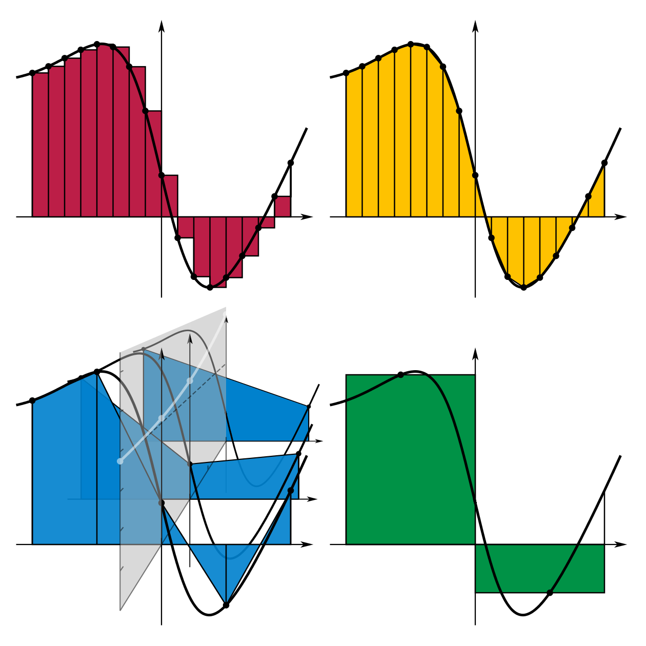 Plot of function with rectangle, trapezoid, Romberg, and Gauss quadrature